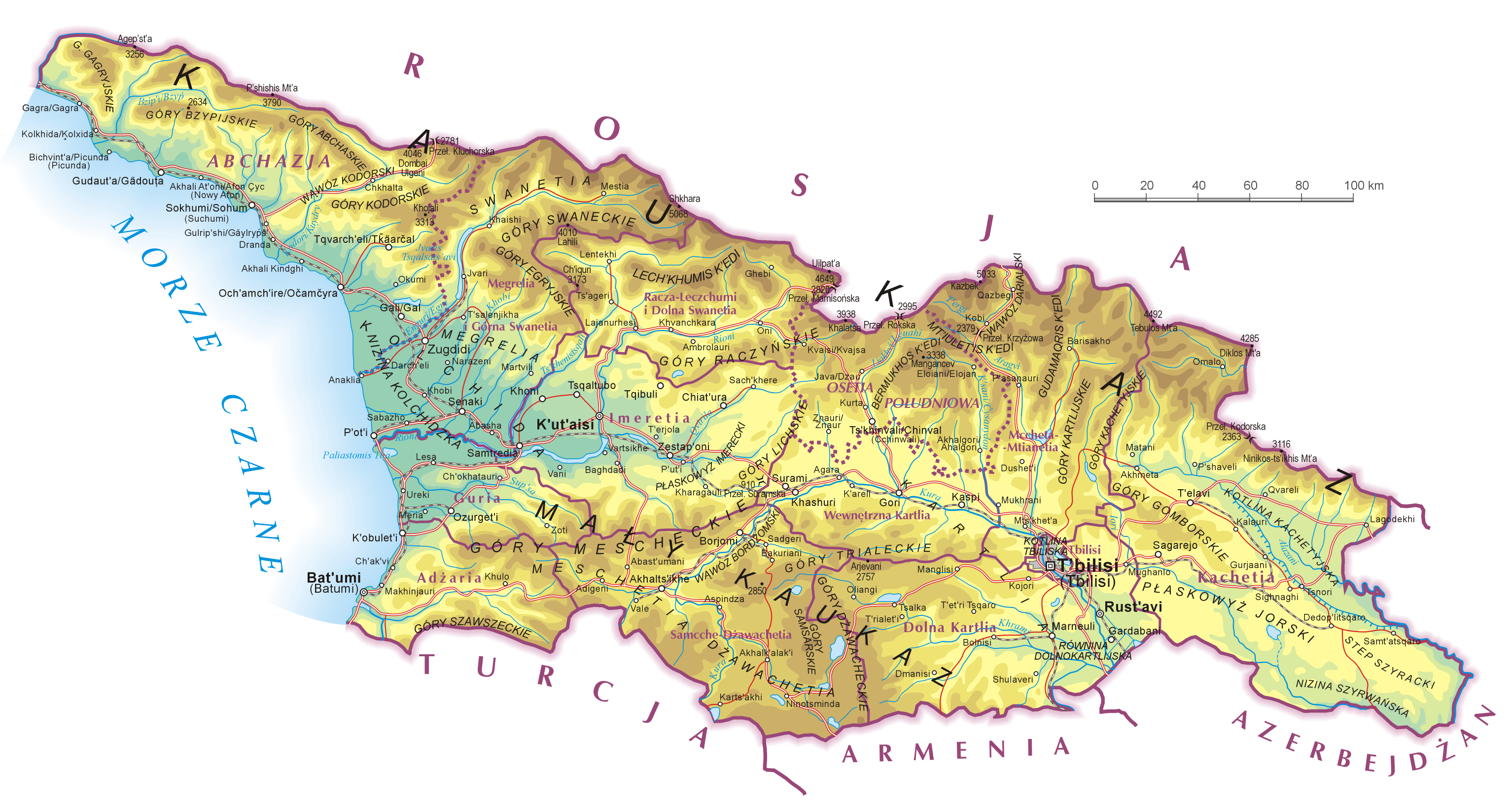 Map of Georgia